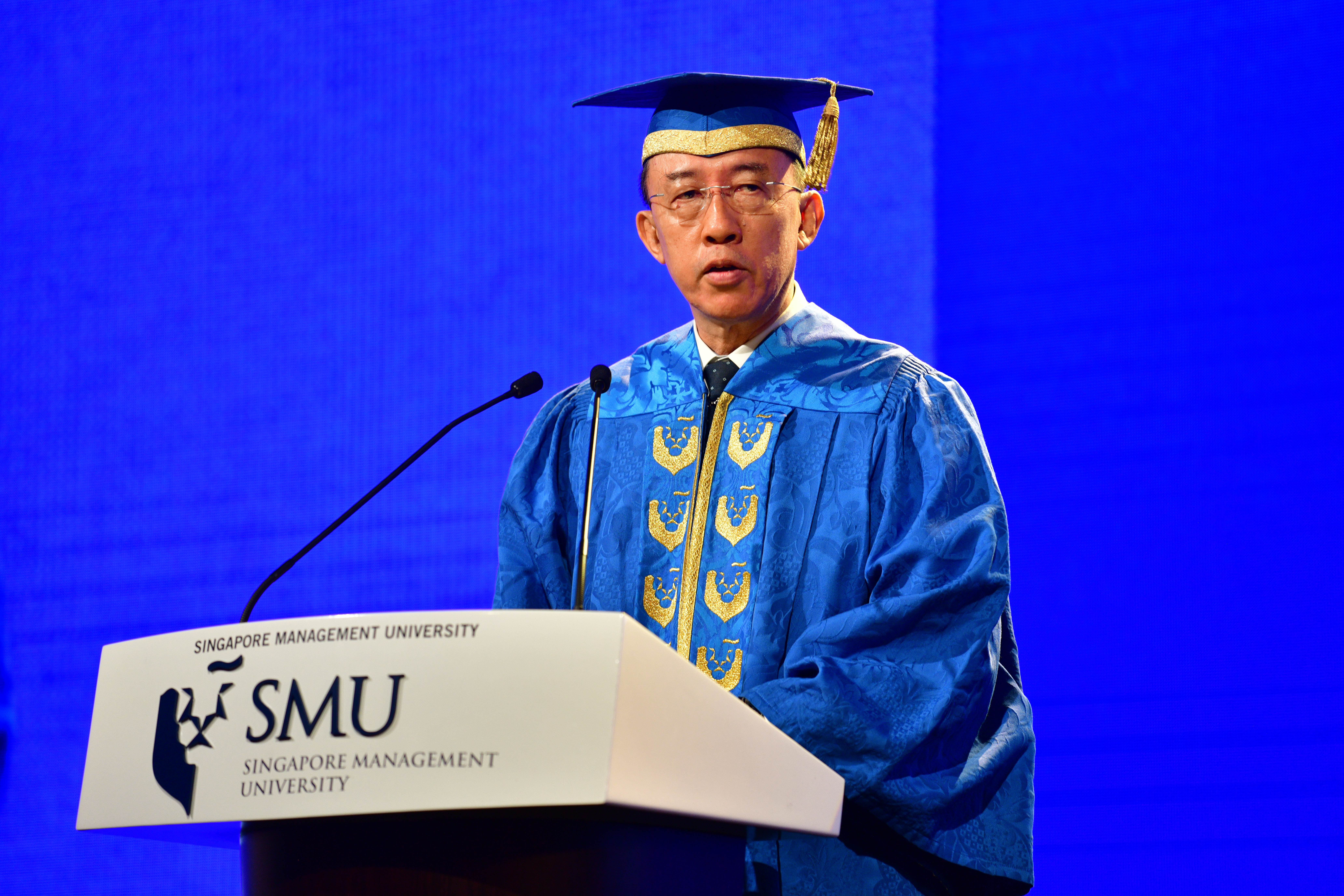 Andrew Phang Judge of Appeal Singapore Supreme Court speaking at Singapore Management University School of Law Commencement 2019